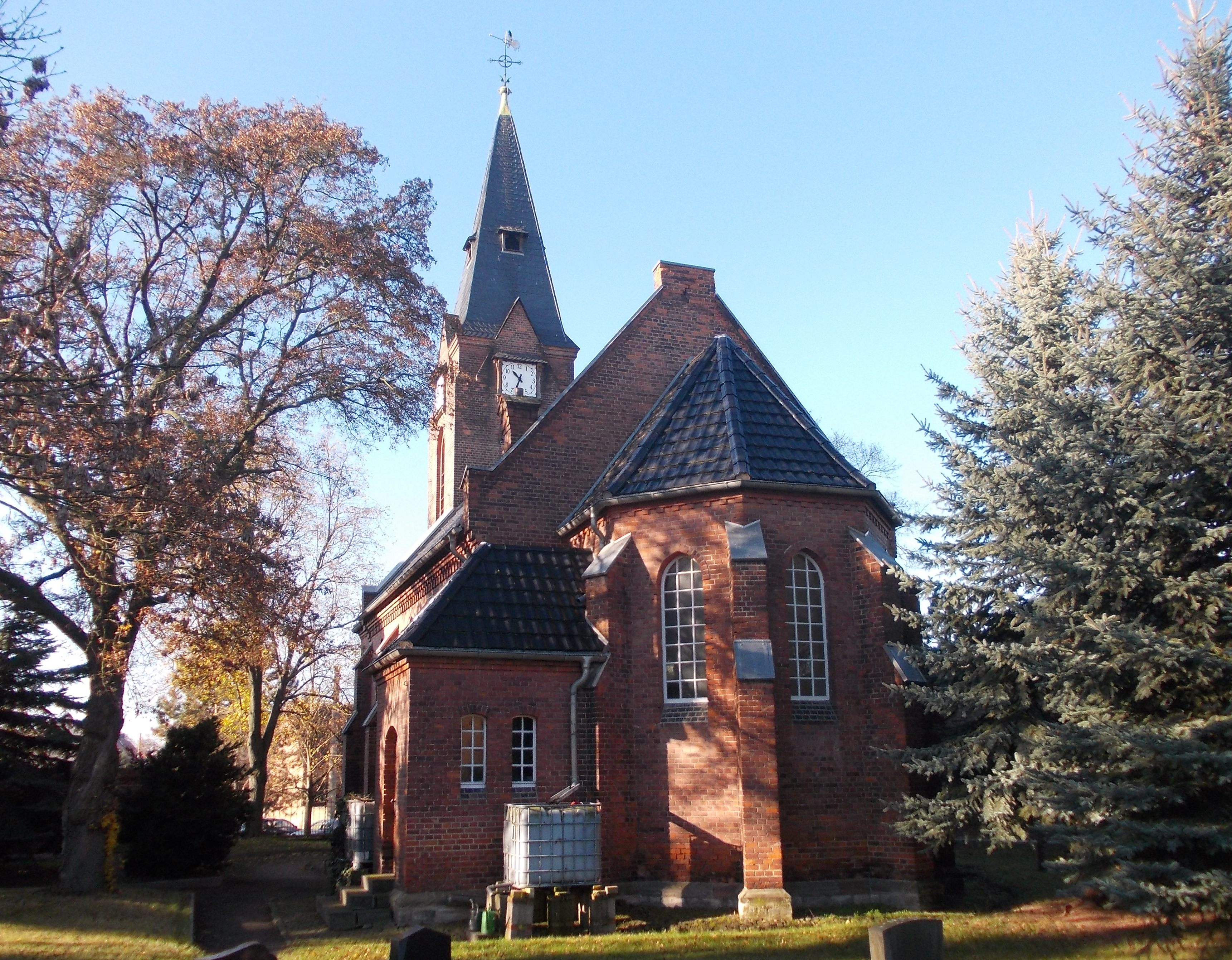 Niederbeuna church (Merseburg, district: Saalekreis, Saxony-Anhalt)